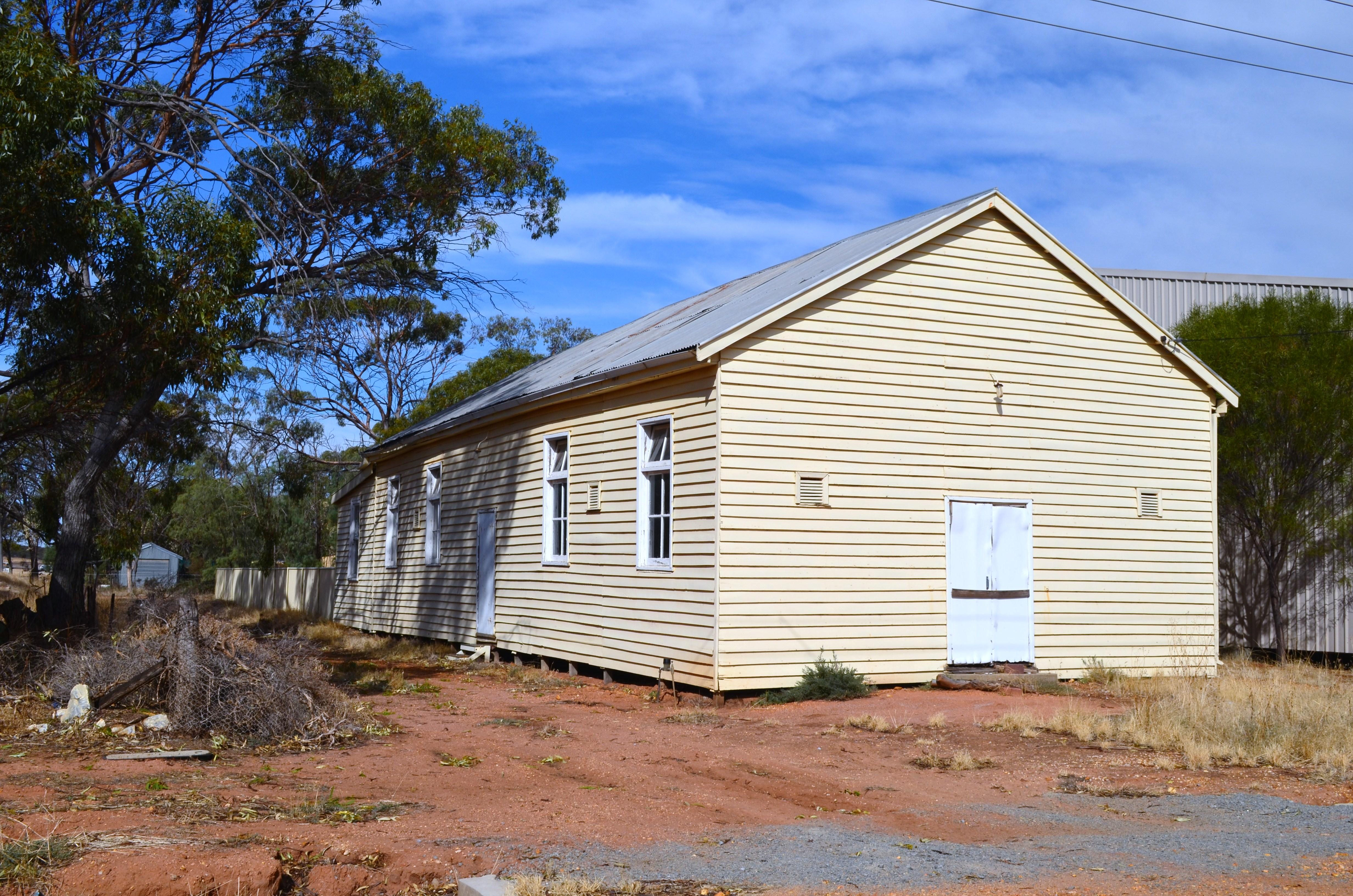 The original timber framed, weatherboard clad Coomberdale Hall, in the very small town of Coomberdale, Western Australia. It was built in about 1920, and is listed on the State Heritage Register. Part of the town's more recently built community centre can be glimpsed behind it at right.